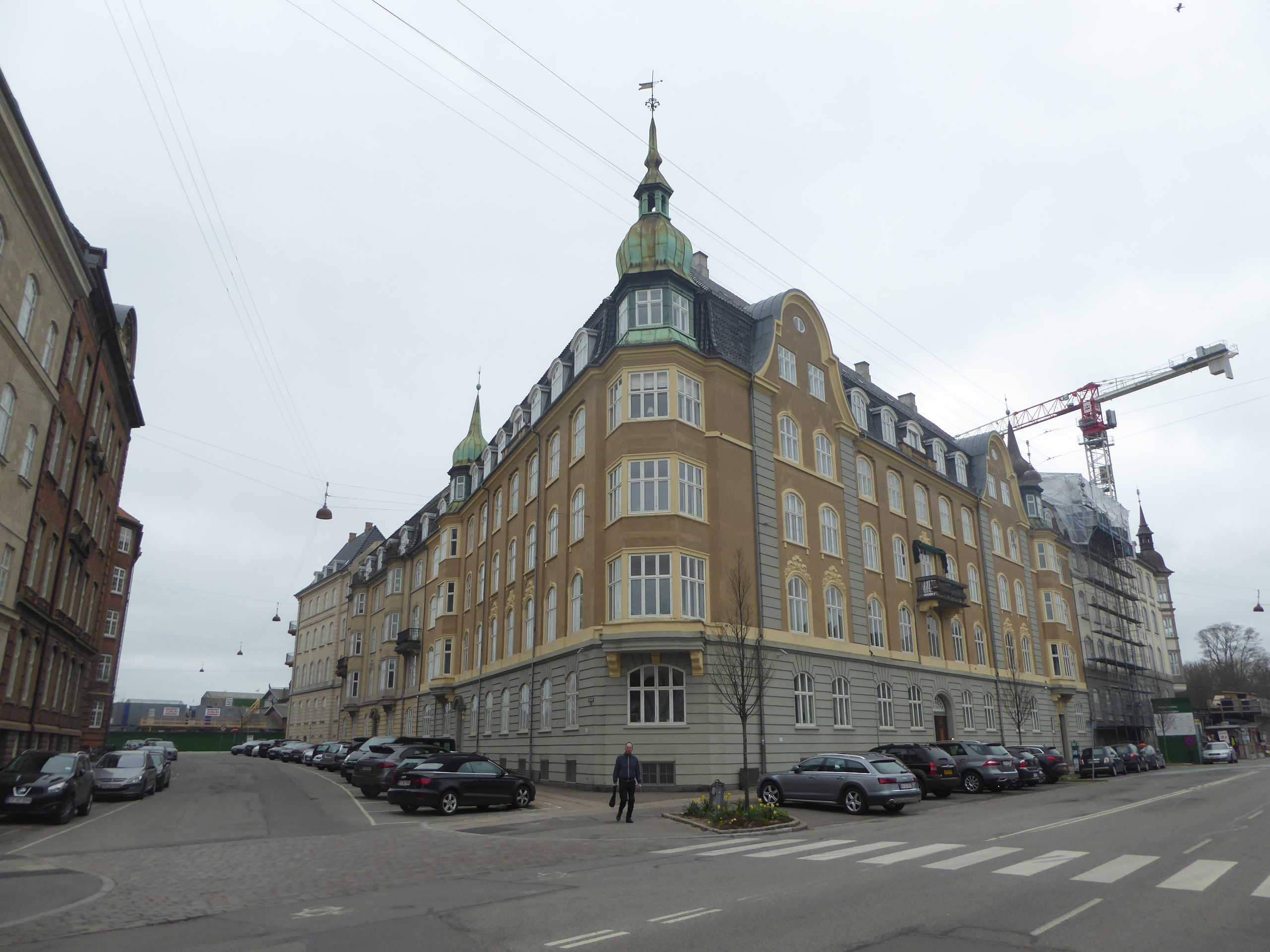 Apartment building at the corner of Bergensgade and Kristianiagade in Østerbro in Copenhagen.